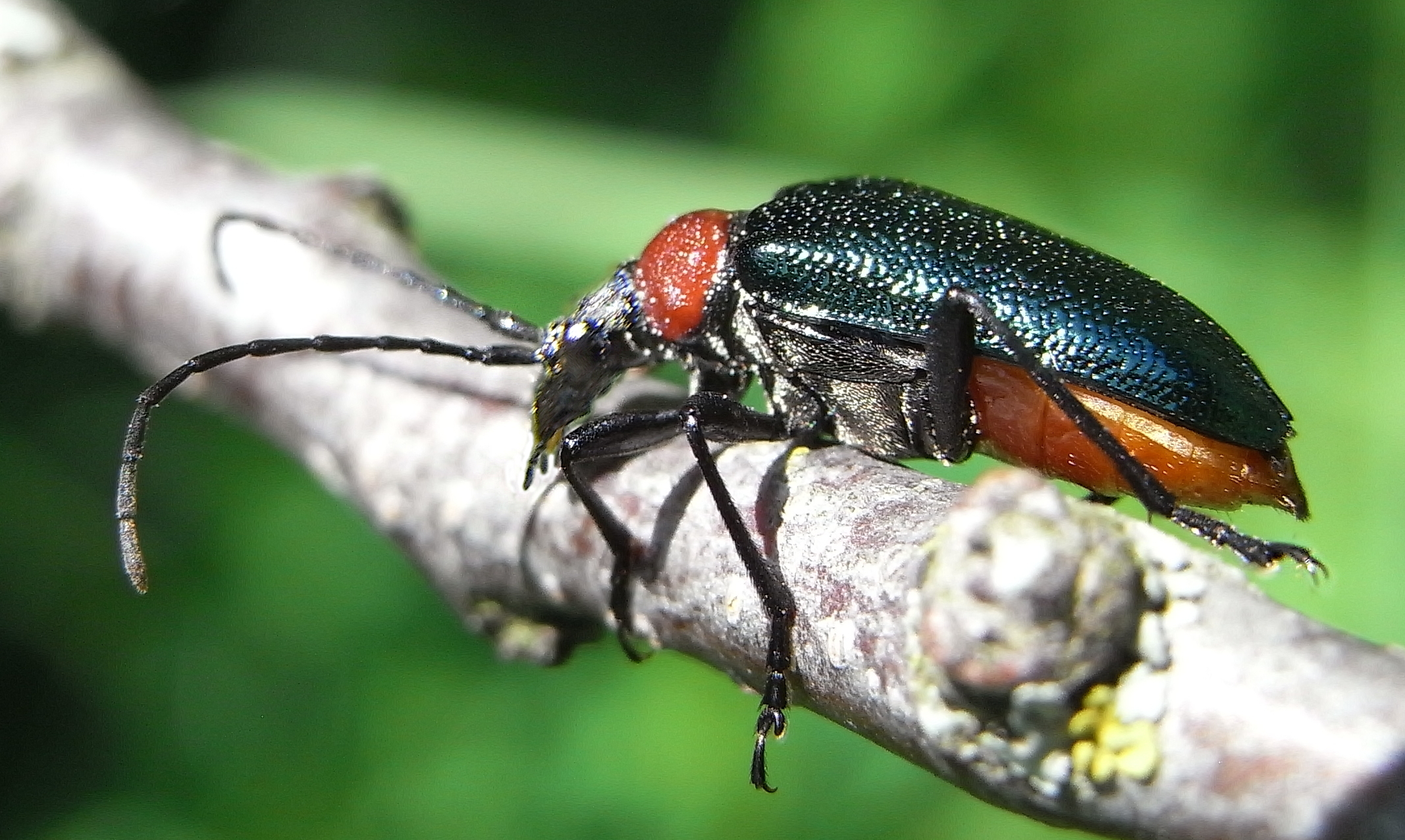 Carilia virginea Ricoh R8